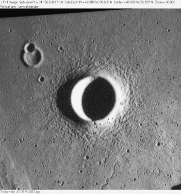 AS15-M-2082